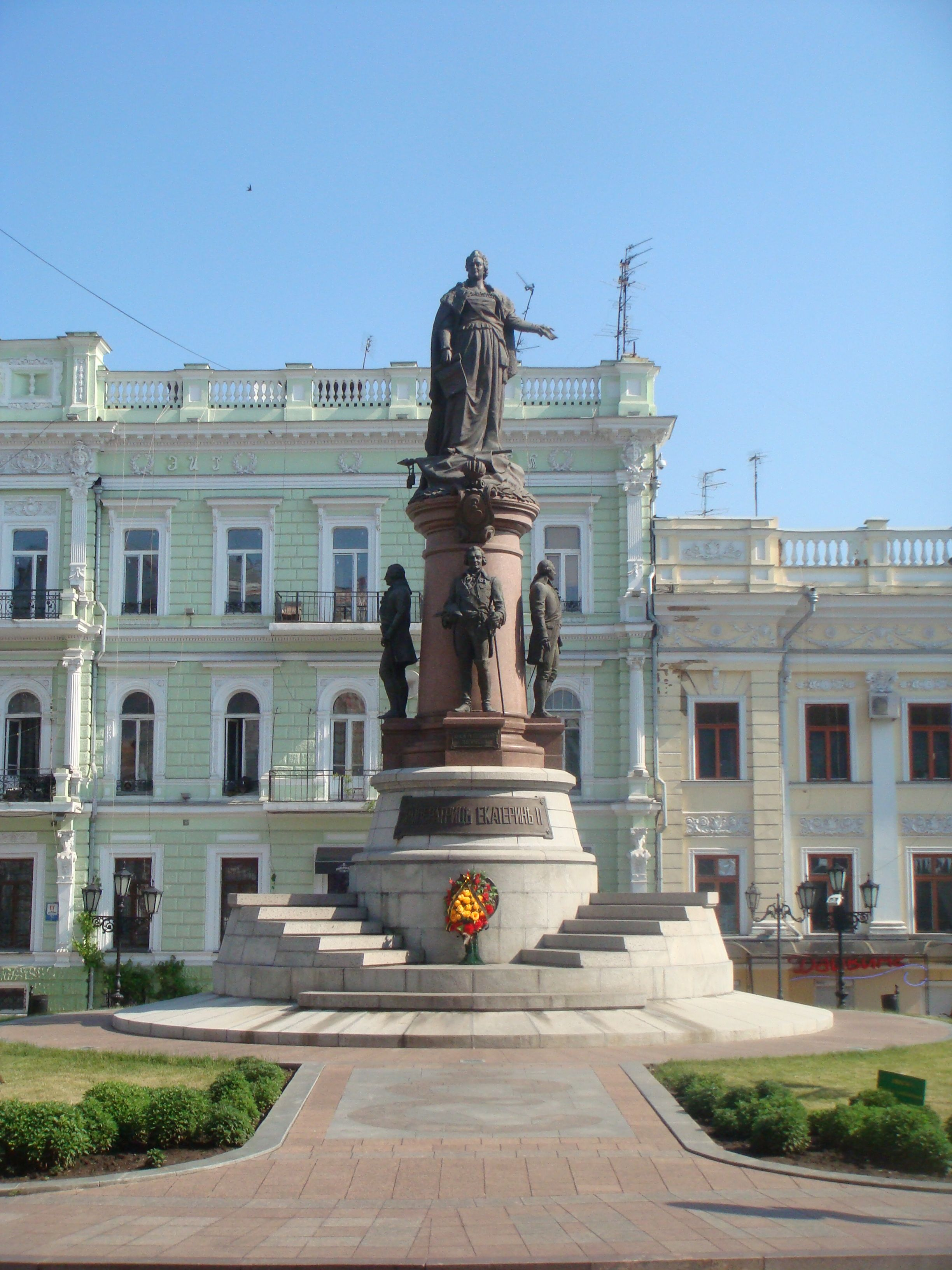 Monument to Odessa's funders. Spring 2010